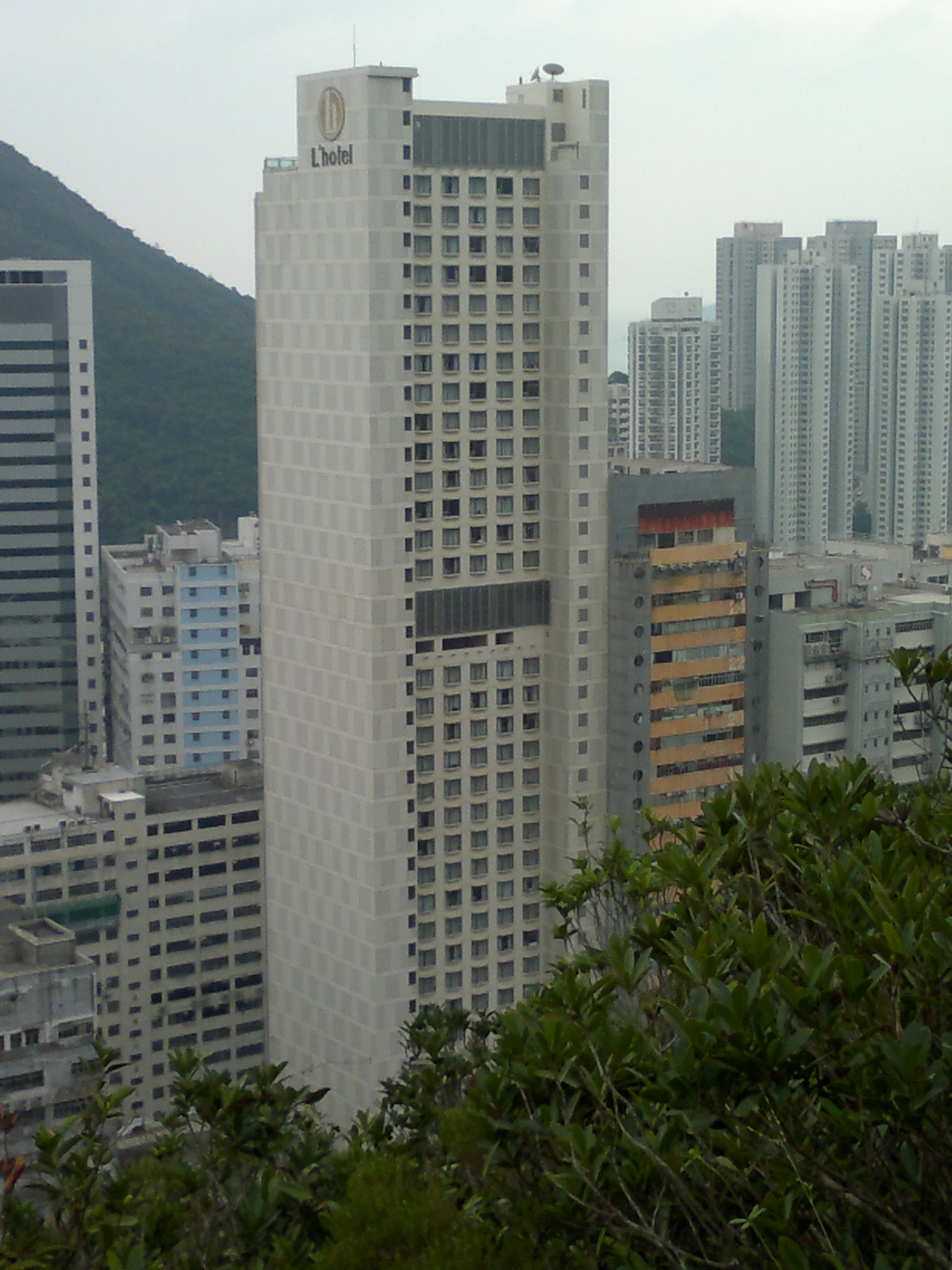 L'Hotel Island South viewed from Bennet's Hill